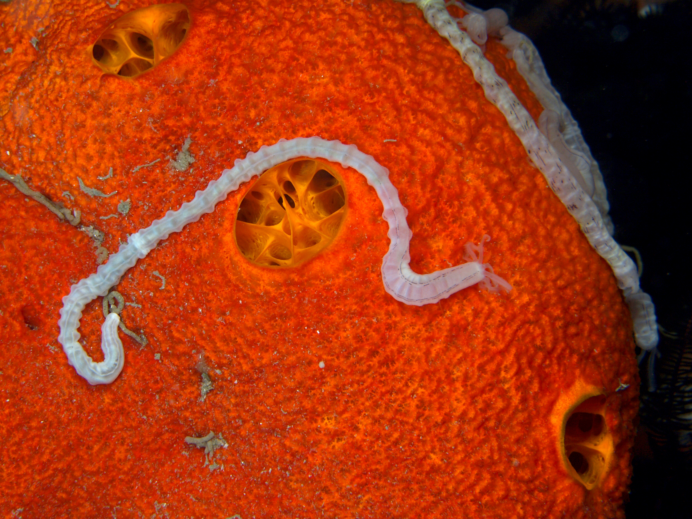 Synaptula lamperti Sea cucumber on Plakortis sp. Chicken liver sponge. These smaller sea cucumbers often congregate on the surface of larger sponge species.